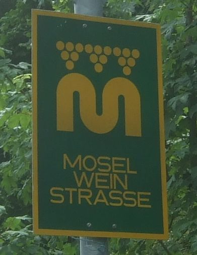 Moselweinstrasse